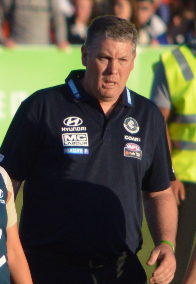 Damien Keeping at the round 1 2017 AFL Women's match between Carlton and Collingwood in February 2017